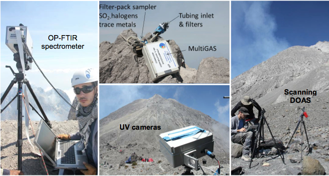 This image depicts instruments used in volcano monitoring. These were deployed in the vicinity of Mount Merapi in 2014.